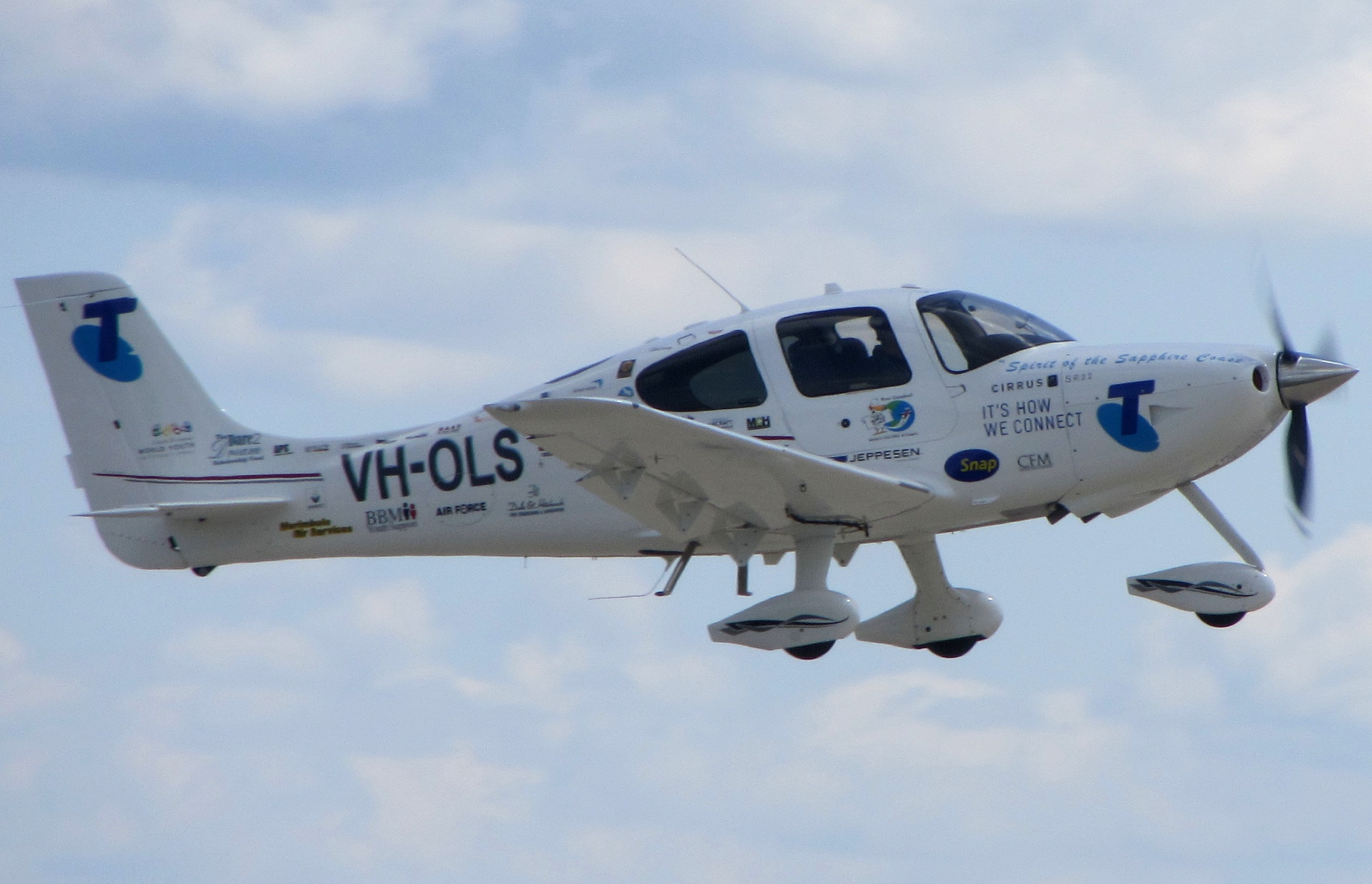 SR-22 Record Attempt